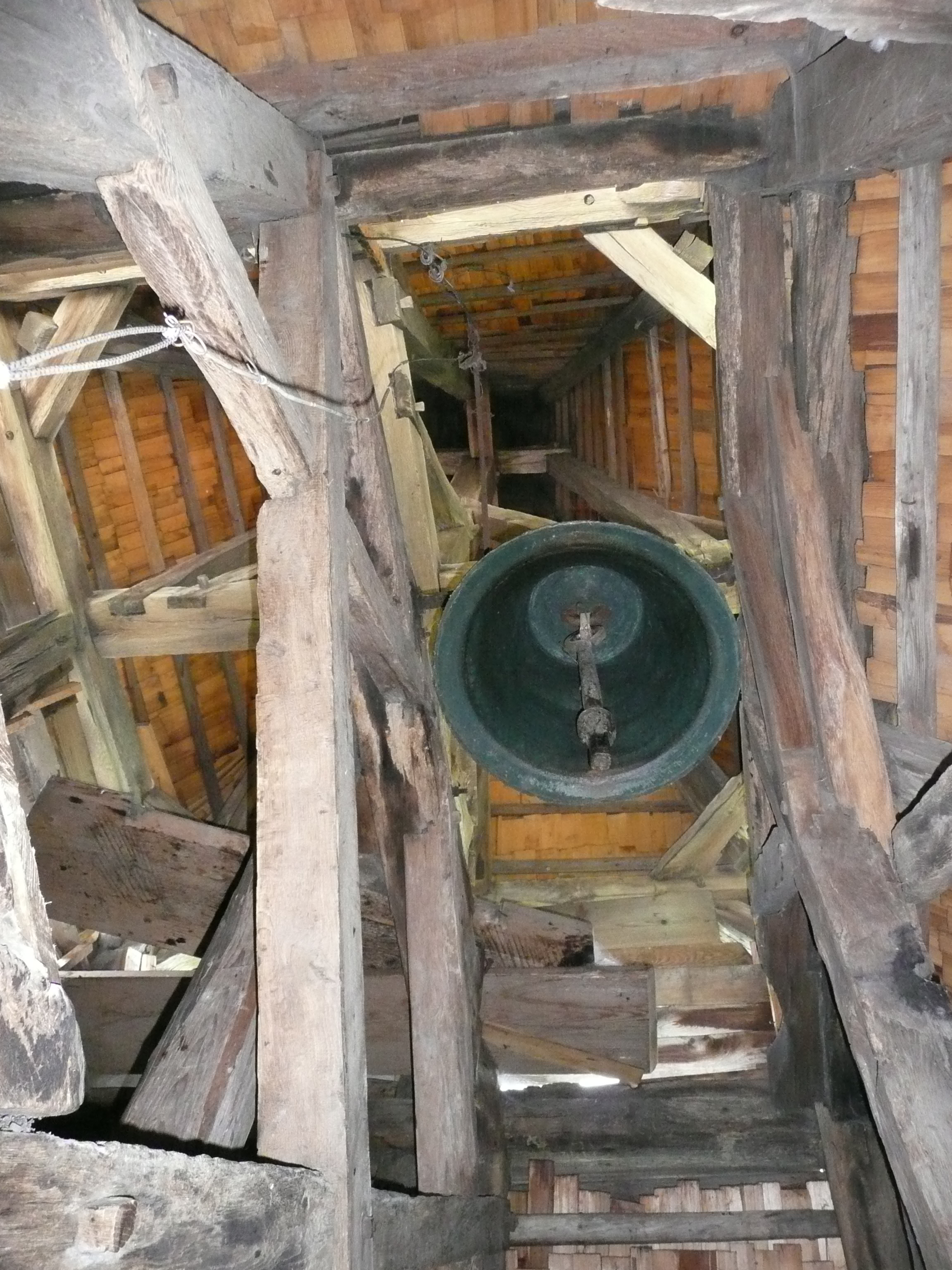 Inside the bell-tower of Holy Spirit church in Rohatyn, Ukraine.